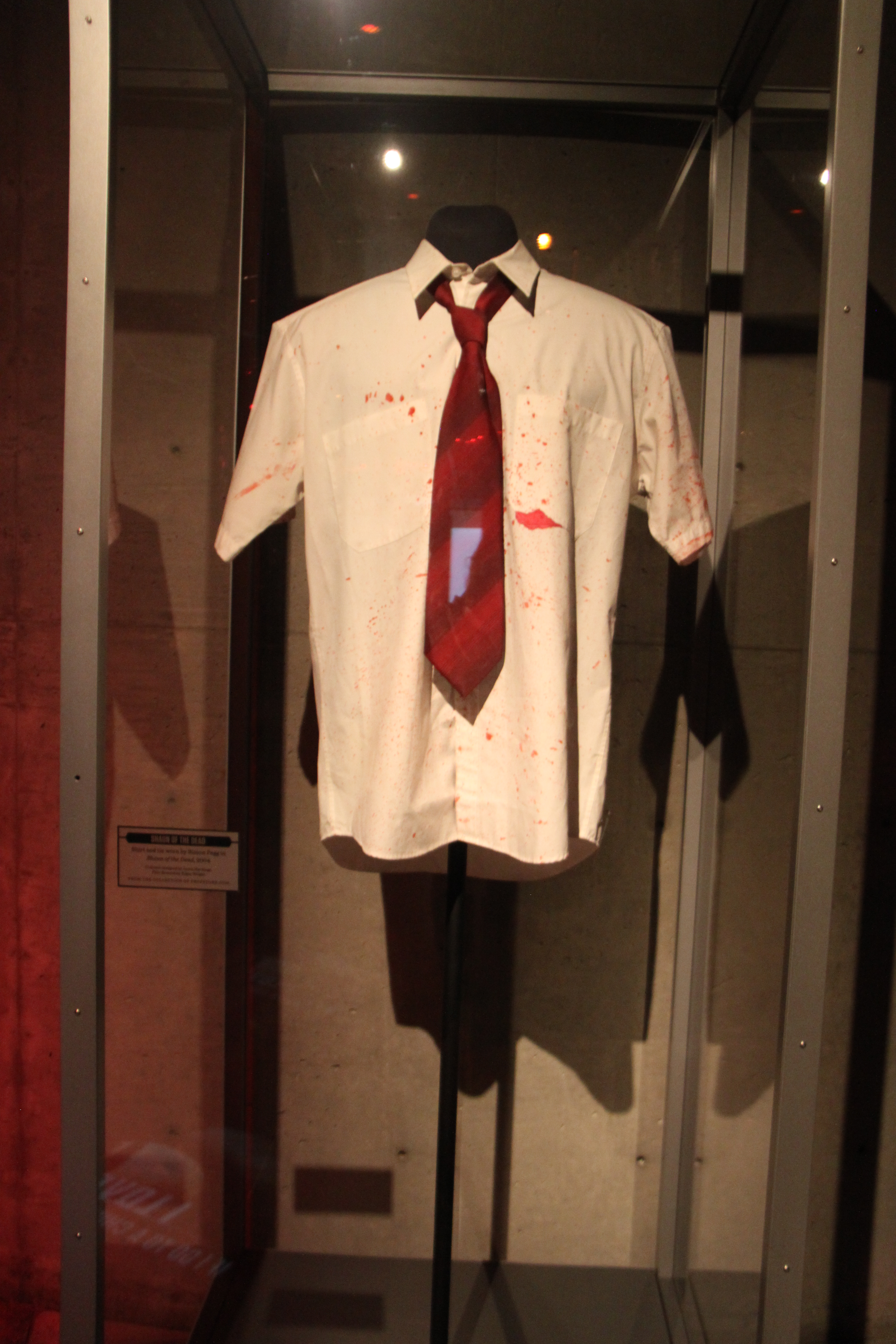 Shaun's classic white shirt and red tie from the 2004 film Shaun of the Dead, Can't Look Away: The Lure of Horror Film, Experience Music Project/Science Fiction Hall of Fame, Seattle.